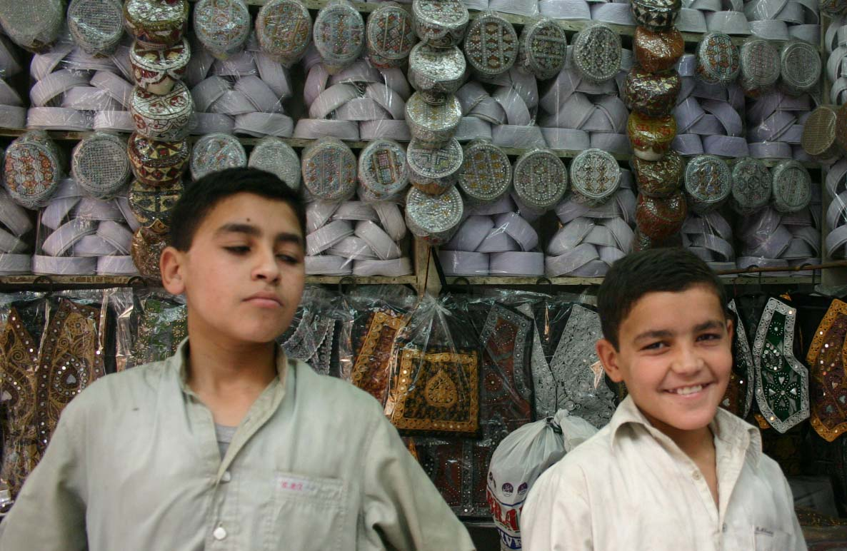 Child labor, Retail in a shop